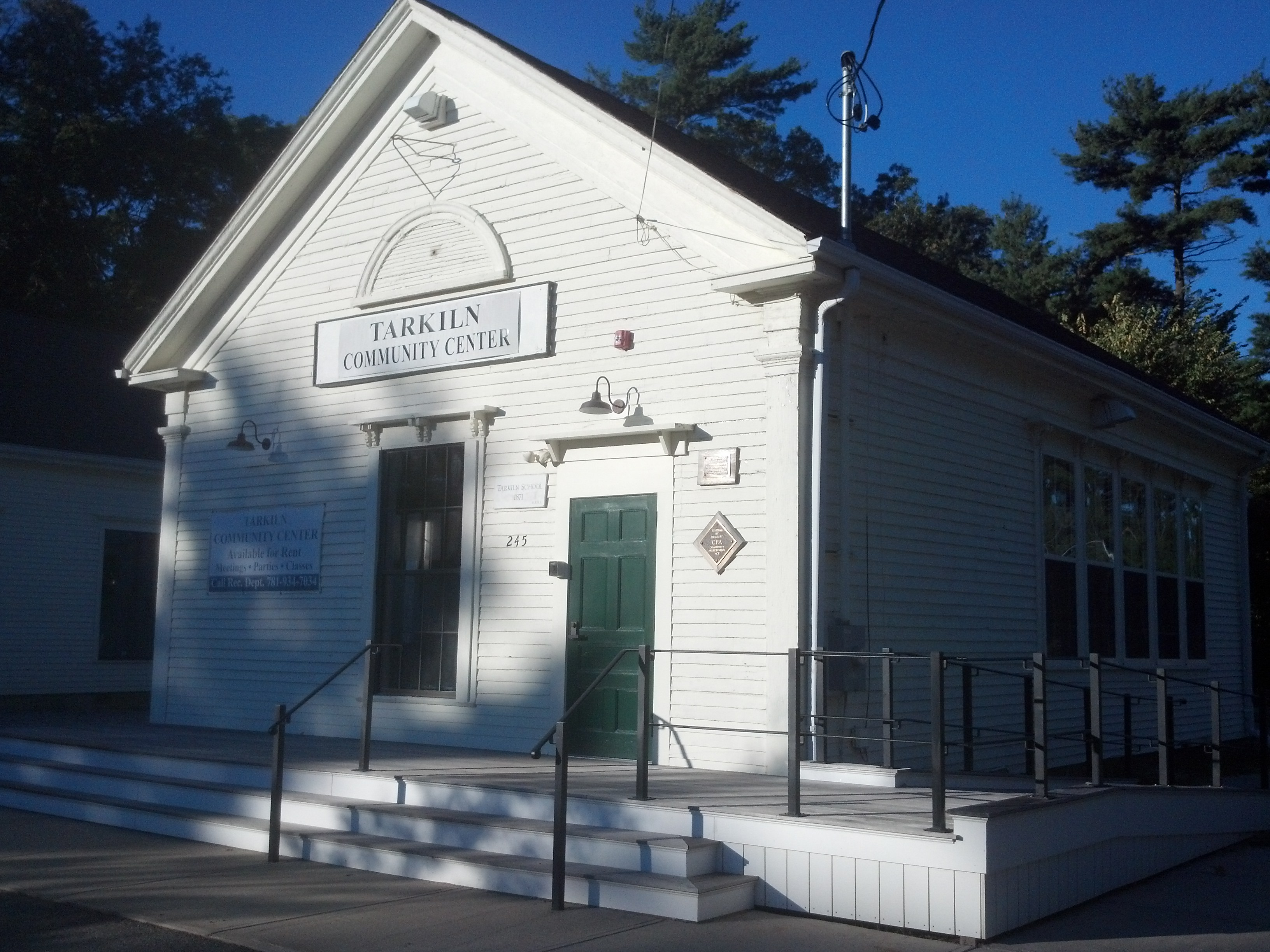 Tarklin School, 245 Summer Street Duxbury The restored Tarkiln historic twin schoolhouses as photographed on September 22, 2013 around 6:00 PM using a Motorola DROID4 phone